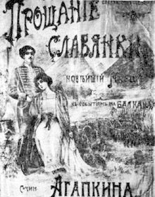 The cover of the first edition of the march "The Farewell of a Slavyanka". 1912